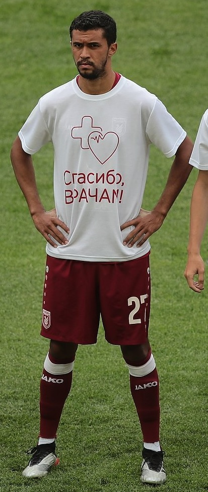 Pablo Renan dos Santos with FC Rubin Kazan before a game against FC Lokomotiv Moscow.